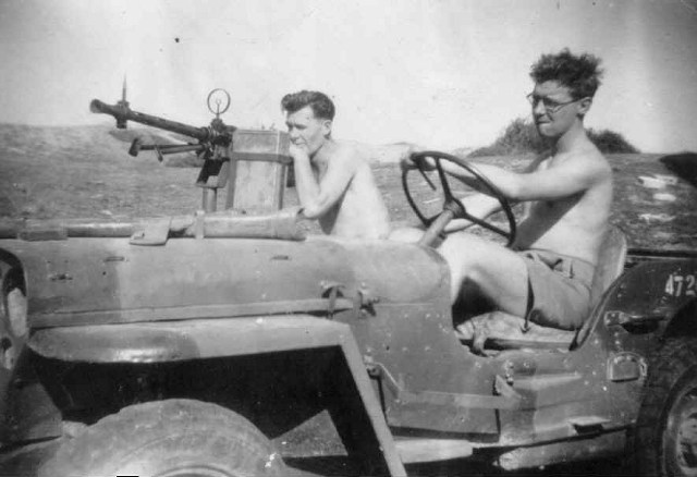 Long Range Desert Group Jeep